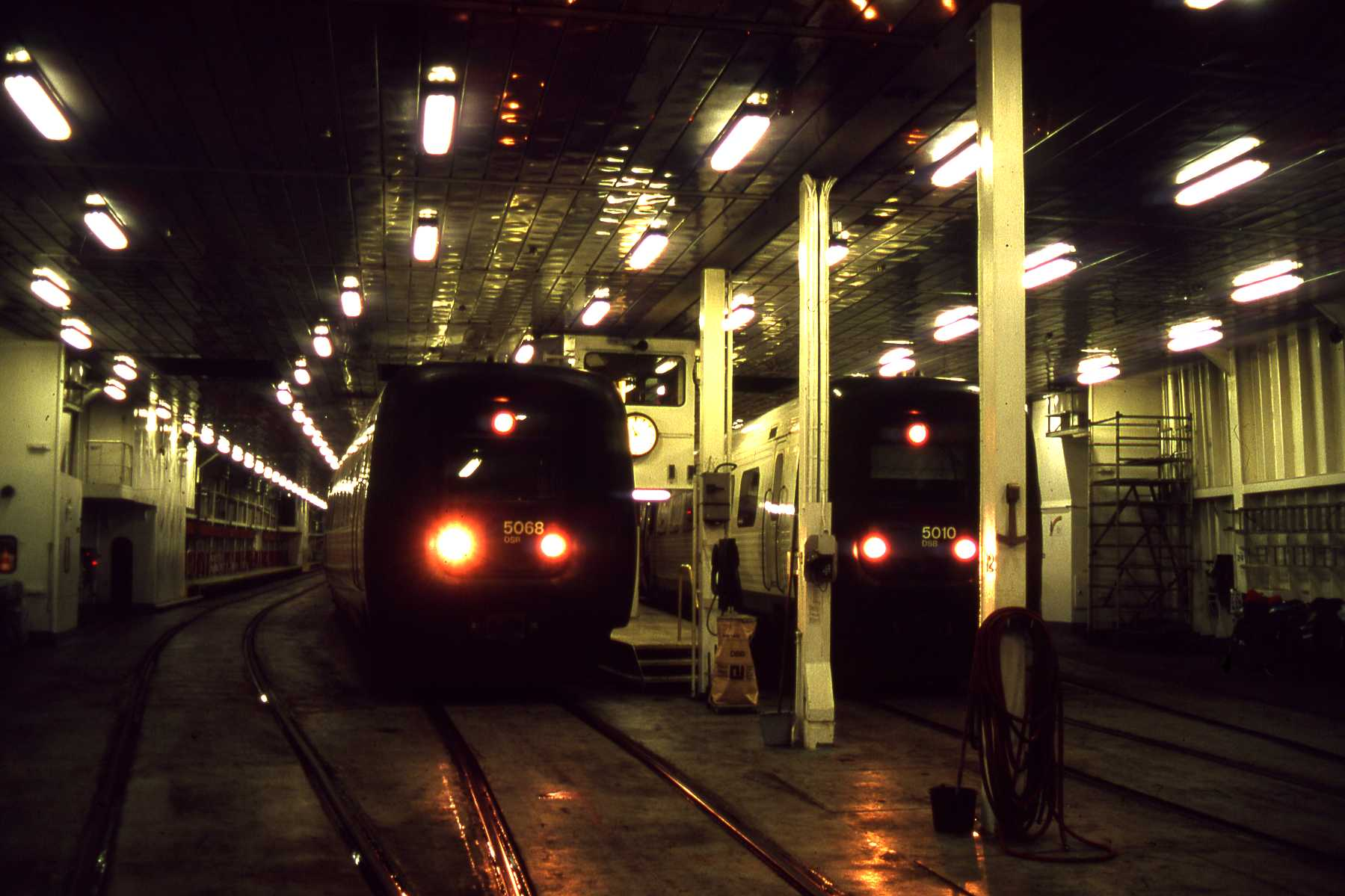 A IC3 train on the ferry. The train is split in two parts to fit on the ferry.